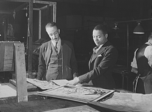 Chicago, Illinois. Mr. John Sengstacke, part owner and general manager of the Chicago Defender, one of the leading Negro newspapers